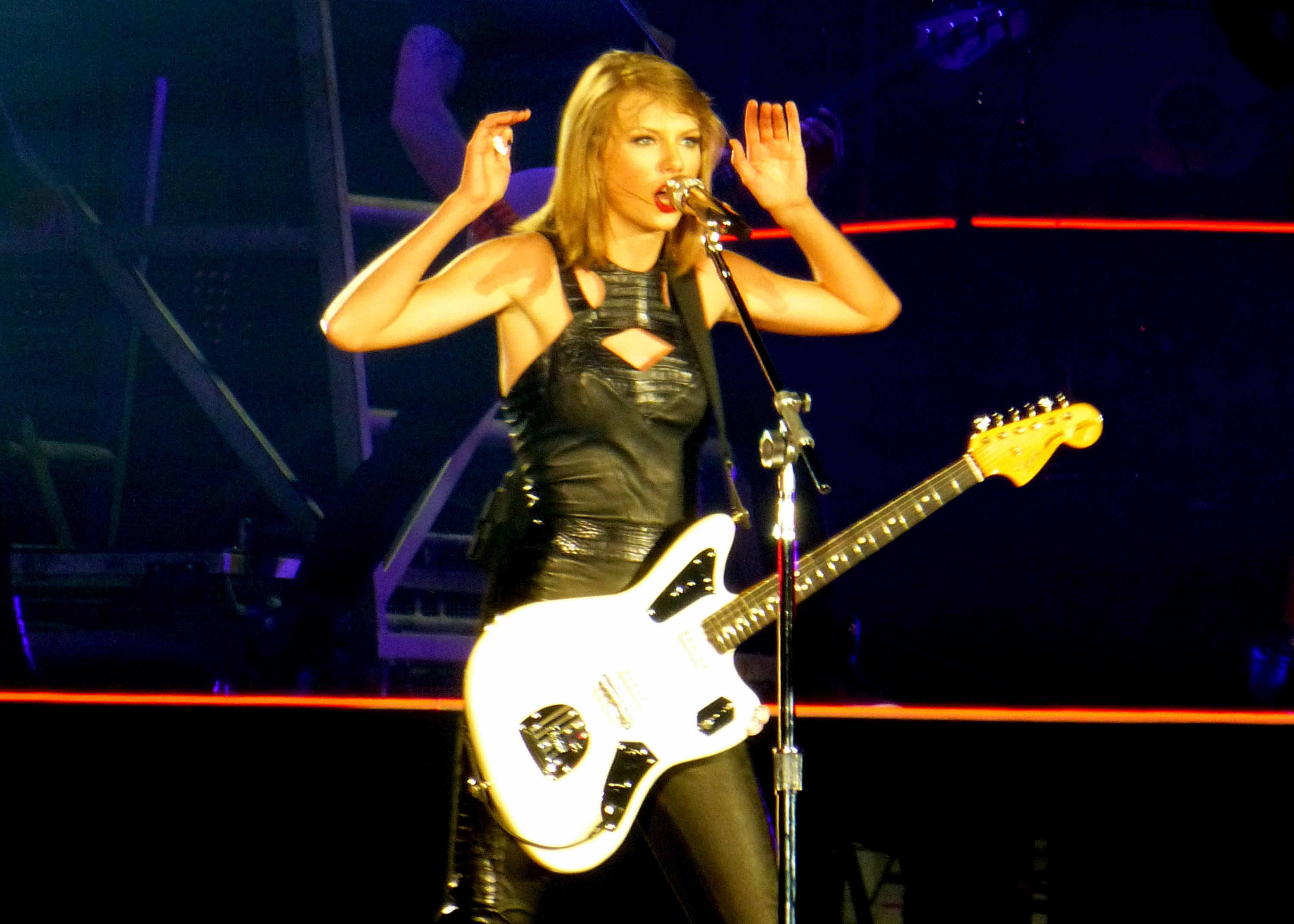 Taylor Swift 1989 Tour at Ford Field in Detroit, 5/30/15